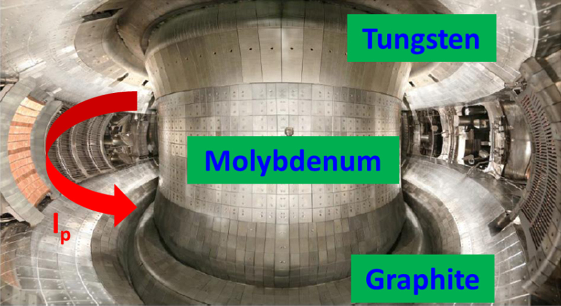 Experimental setup for high-βN discharges in the 2015 EAST Tokamak campaign. EAST vacuum vessel and plasma current direction. The three main in-vessel materials are molybdenum for the first wall, graphite for the lower divertor plate and tungsten for the upper divertor plate.